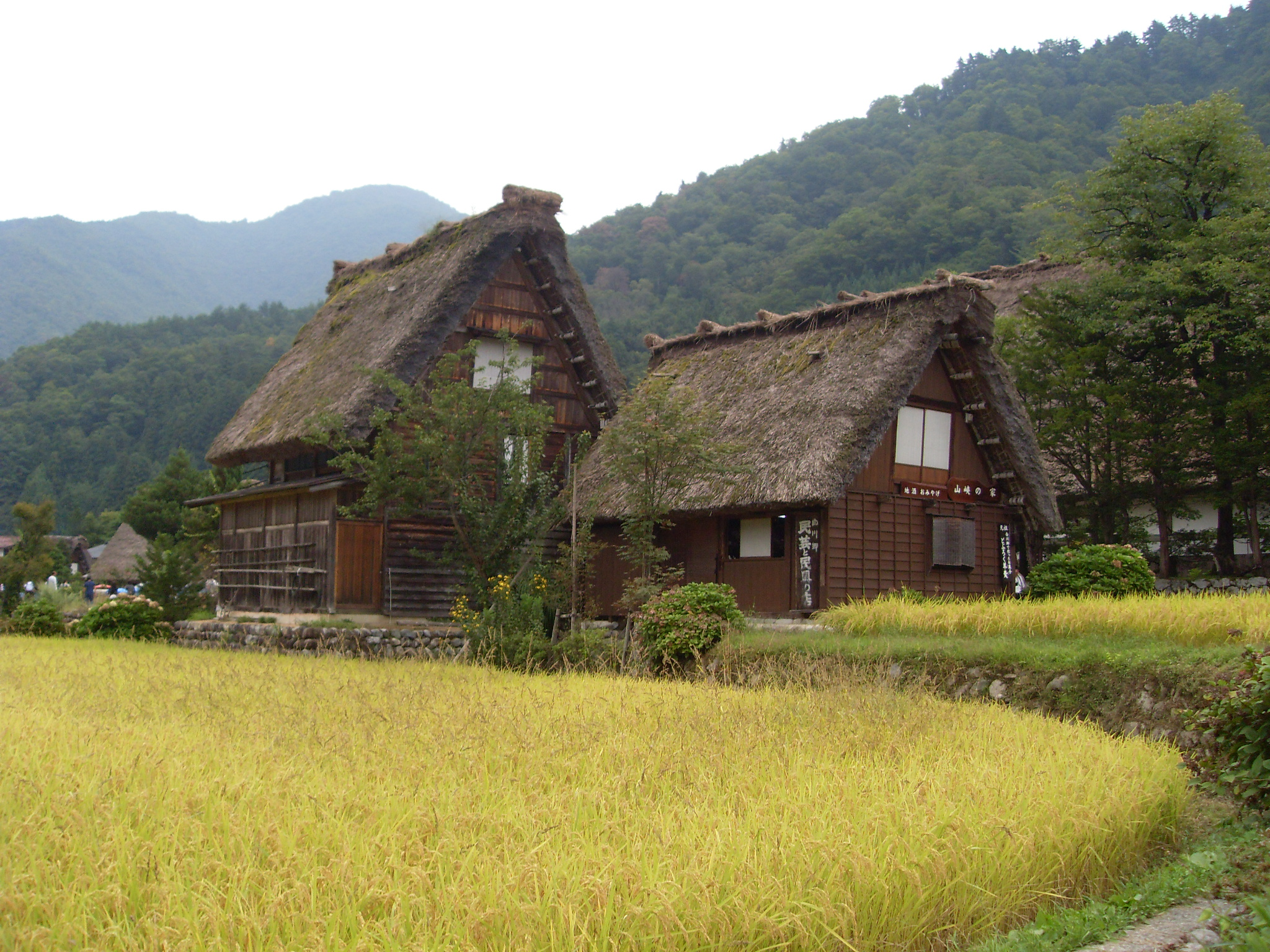 Houses in Shirakawa-go, Japan